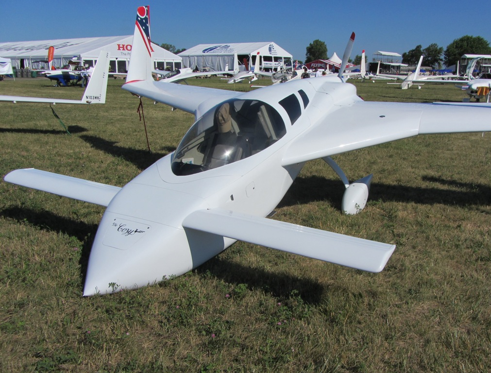 Cozy III